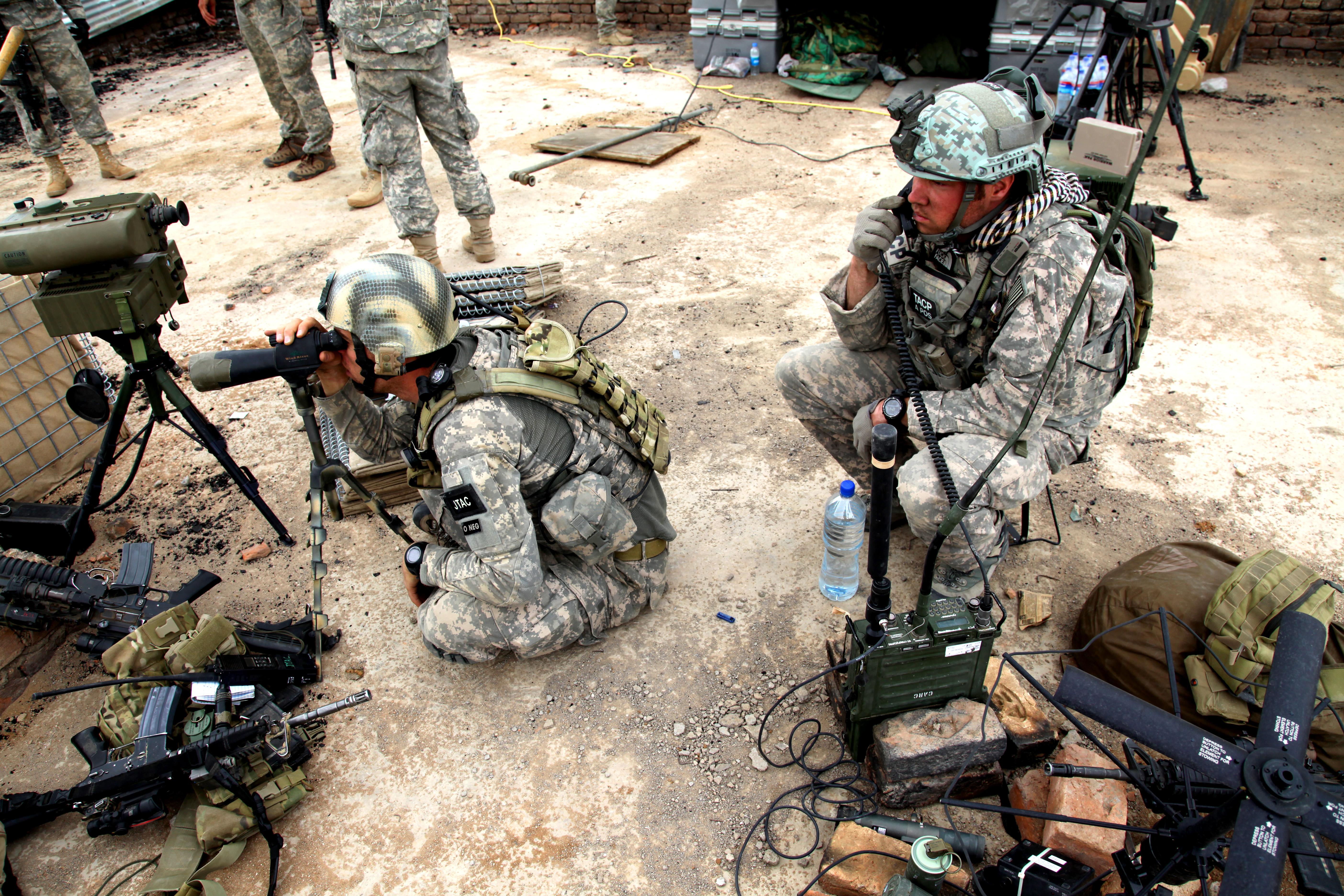 USAF TACP airmen provide over watch and call in air support in Jaghato, Afghanistan, May 1, 2010. The Airmen are assigned to Joint Terminal Attack Control Operations on Contingency Operating Post Jaghato. (DoD photo by Spc. De'Yonte Mosley, U.S. Army/Released)